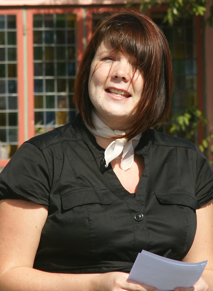 Marie Stærke, Danish politician (Social Democrats) and Mayor in Køge, Denmark from 2007